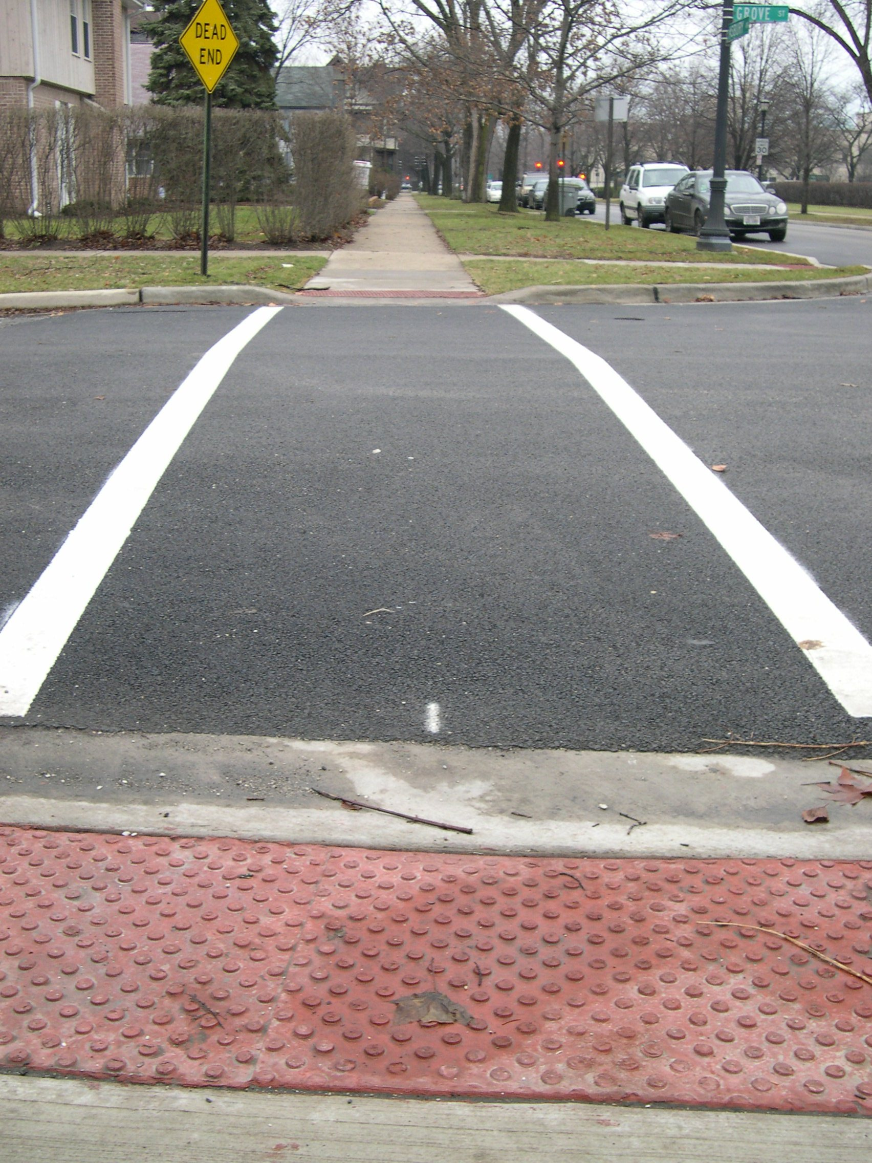 Accessible Street Cross for Blind and wheelchair users at Evanston ILL